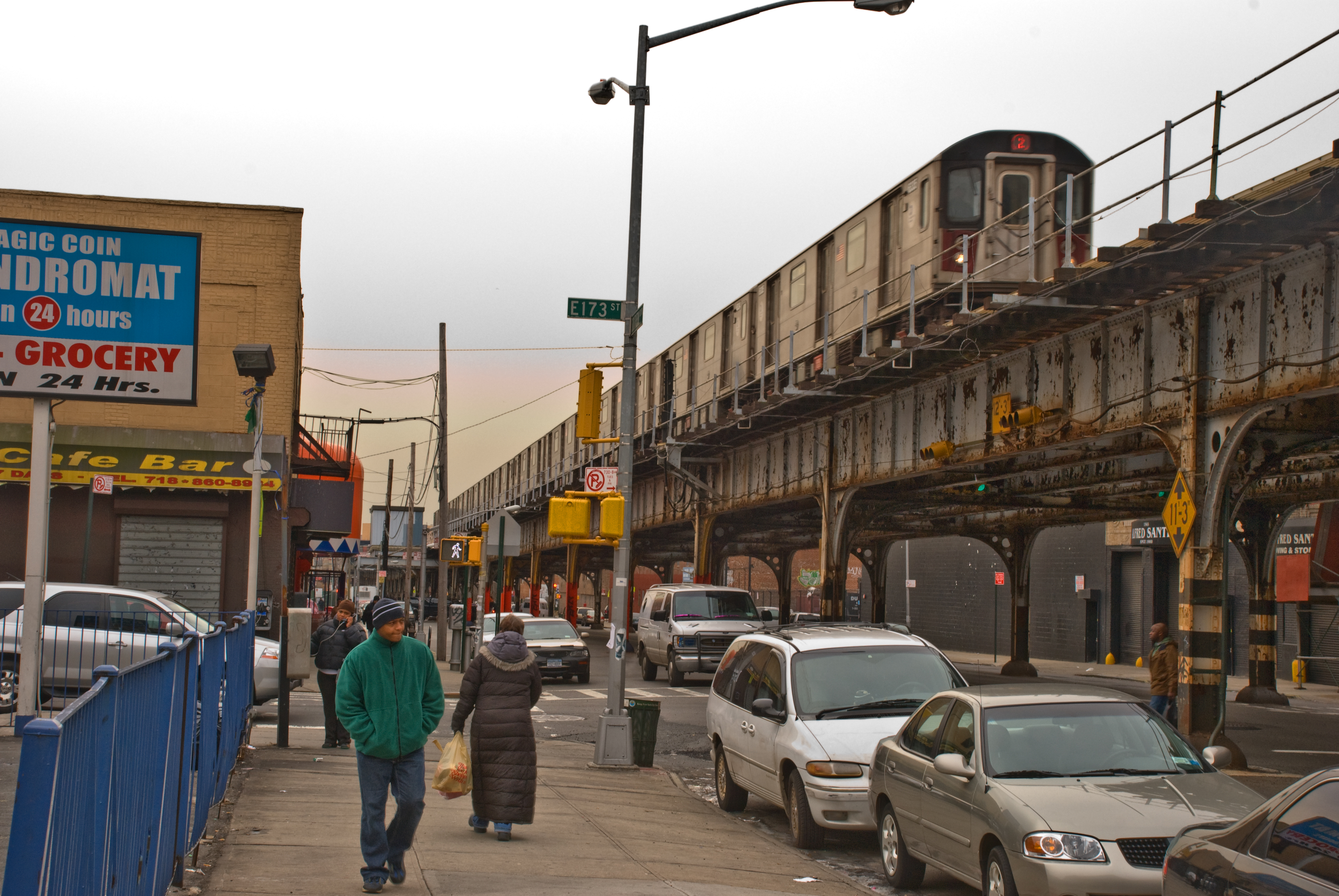 Subway at Southern Boulevard and 173rd. Street, The Bronx, New York, 12 Feb. 2008